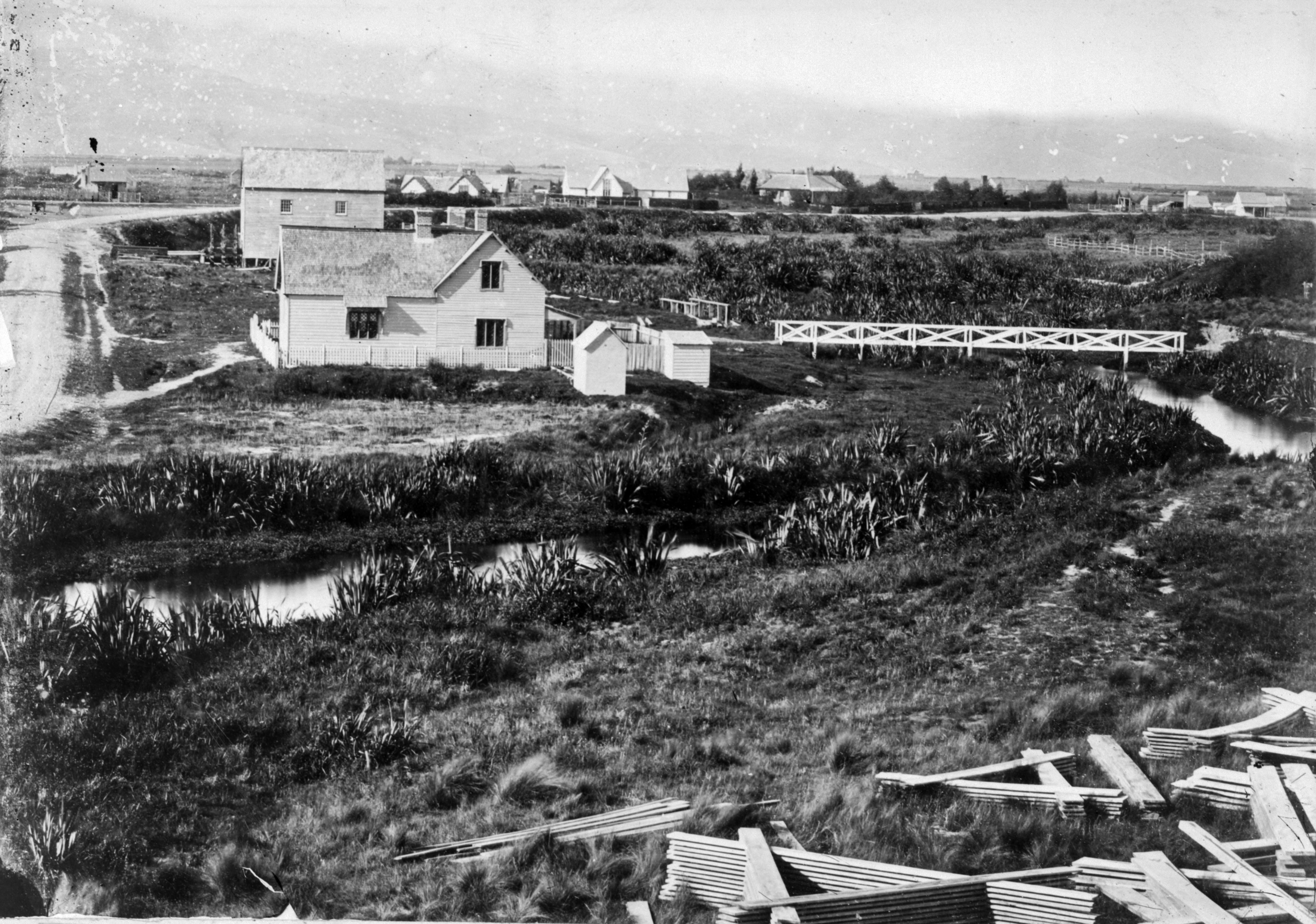 Christchurch, in May 1860. Looking south, with the Avon River in the middle ground and a bridge over it at Worcester Street on the right. The old land office is left of the bridge. On the left is a short stretch of Oxford Terrace. Inwood's flour-mill is beyond the land office and St Michael's (still there in 2011) further in the background, to the right of the mill building.